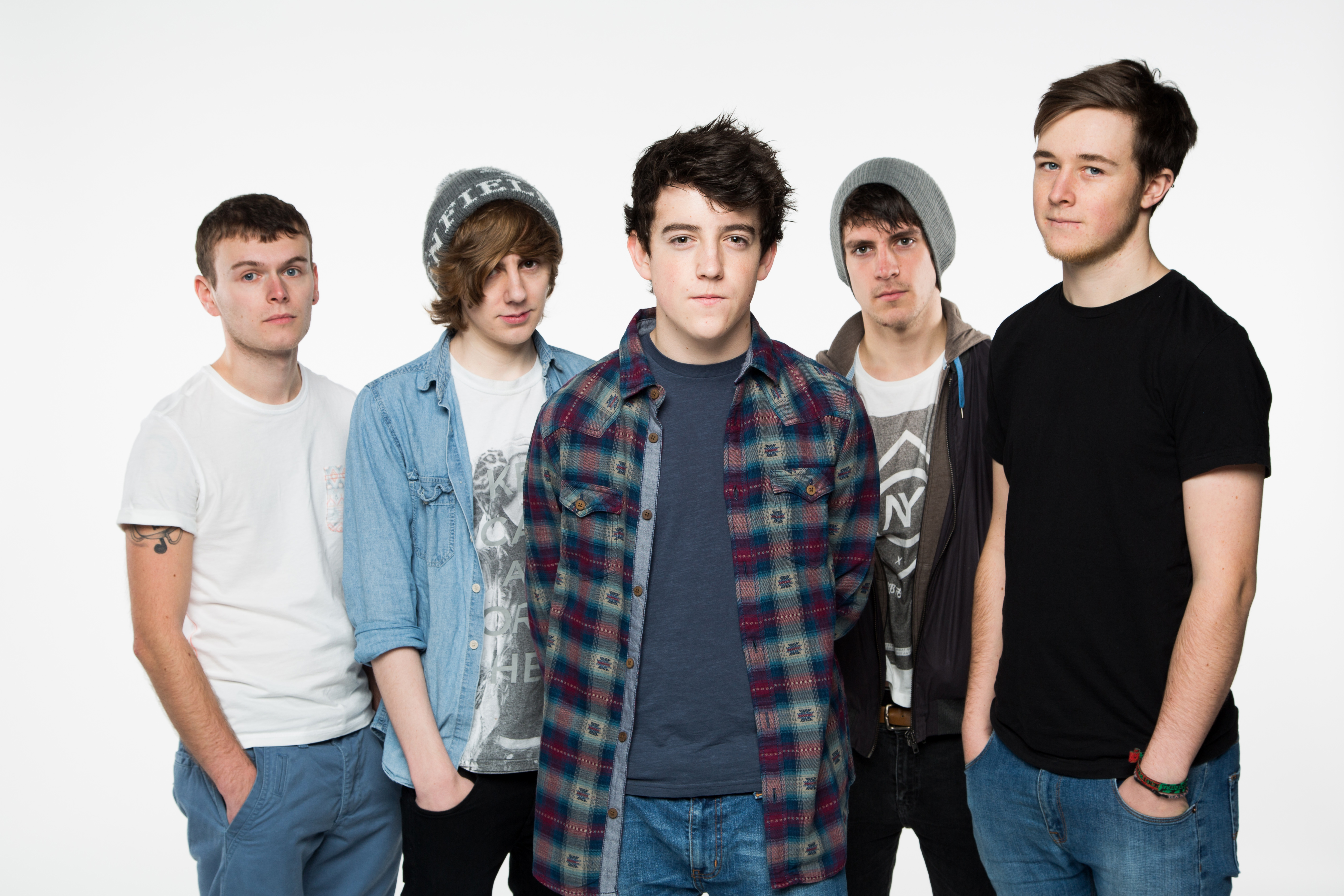 Sw¦énamis . A Welsh band.